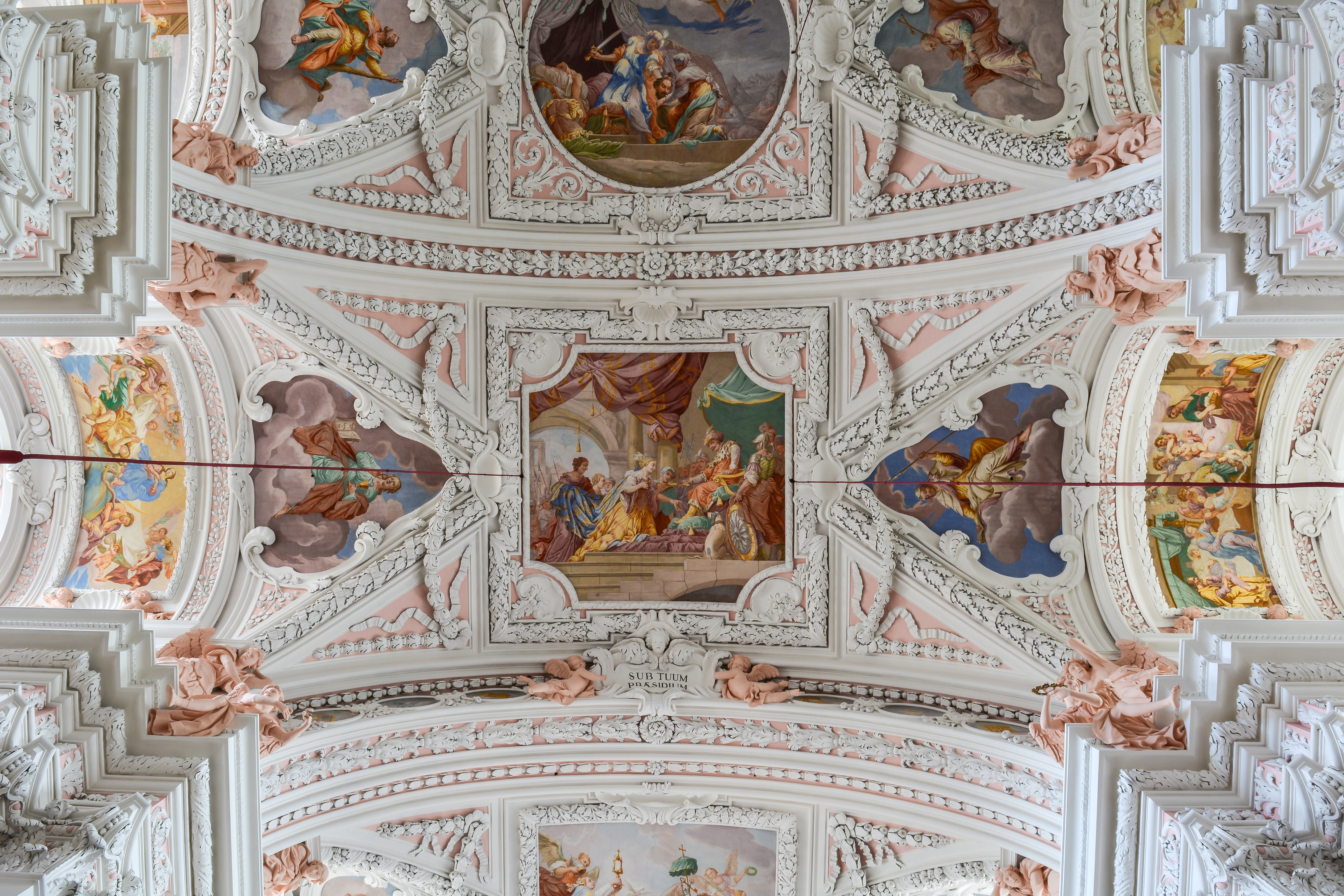 The frescos of the catholic parish church of Garsten were made by Michael Christoph Grabenberger and his brothers Michael Georg and Johann Bernhard. The stoccos are the work of Giovanni Battist and Bartolomeo Carlone as well as Peter Camuzzi and Domenico Garon.